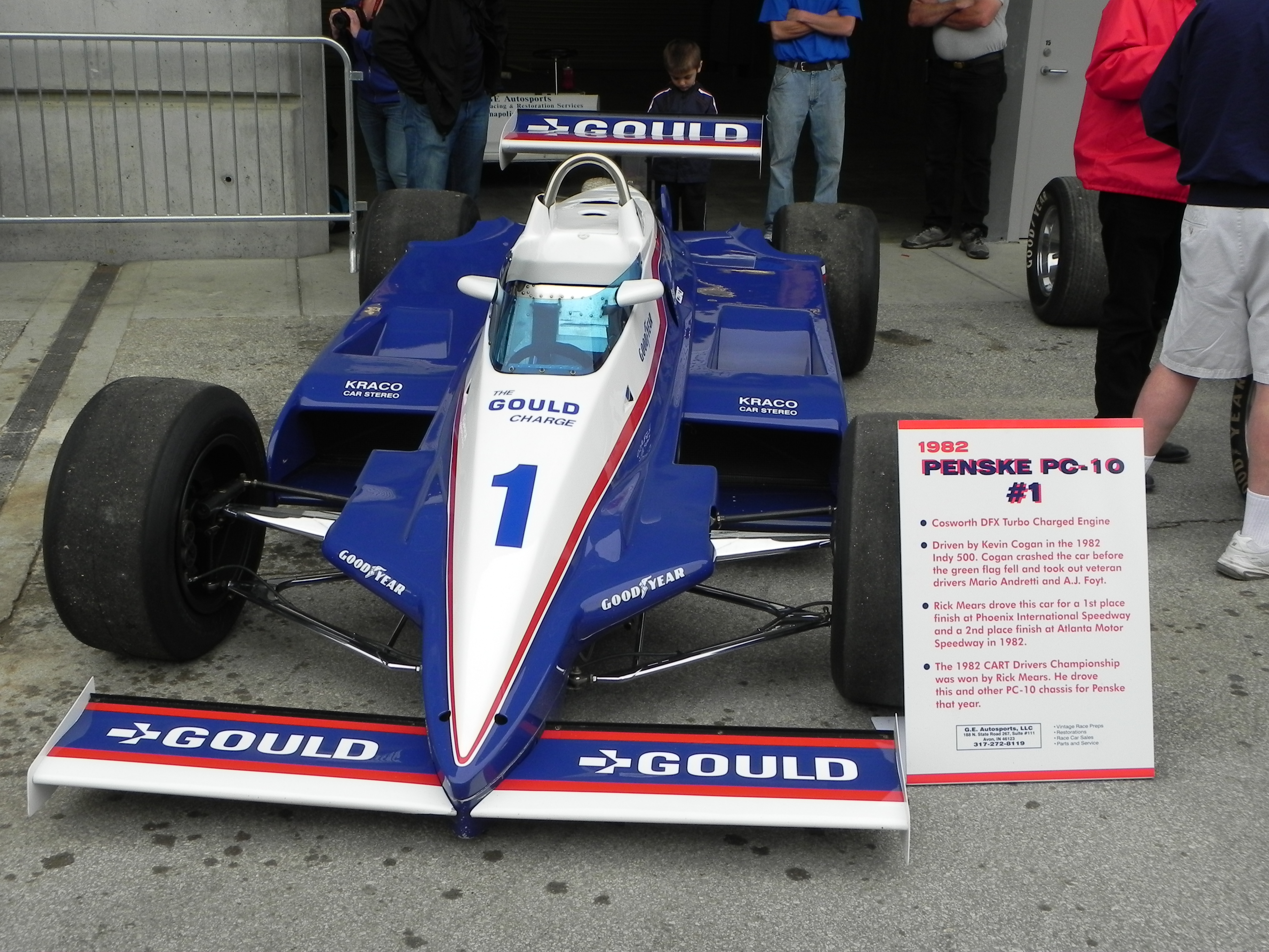 Indy car driven by Kevin Cogan at the 1982 Indianapolis 500. On display at the Indianapolis Motor Speedway in 2013.